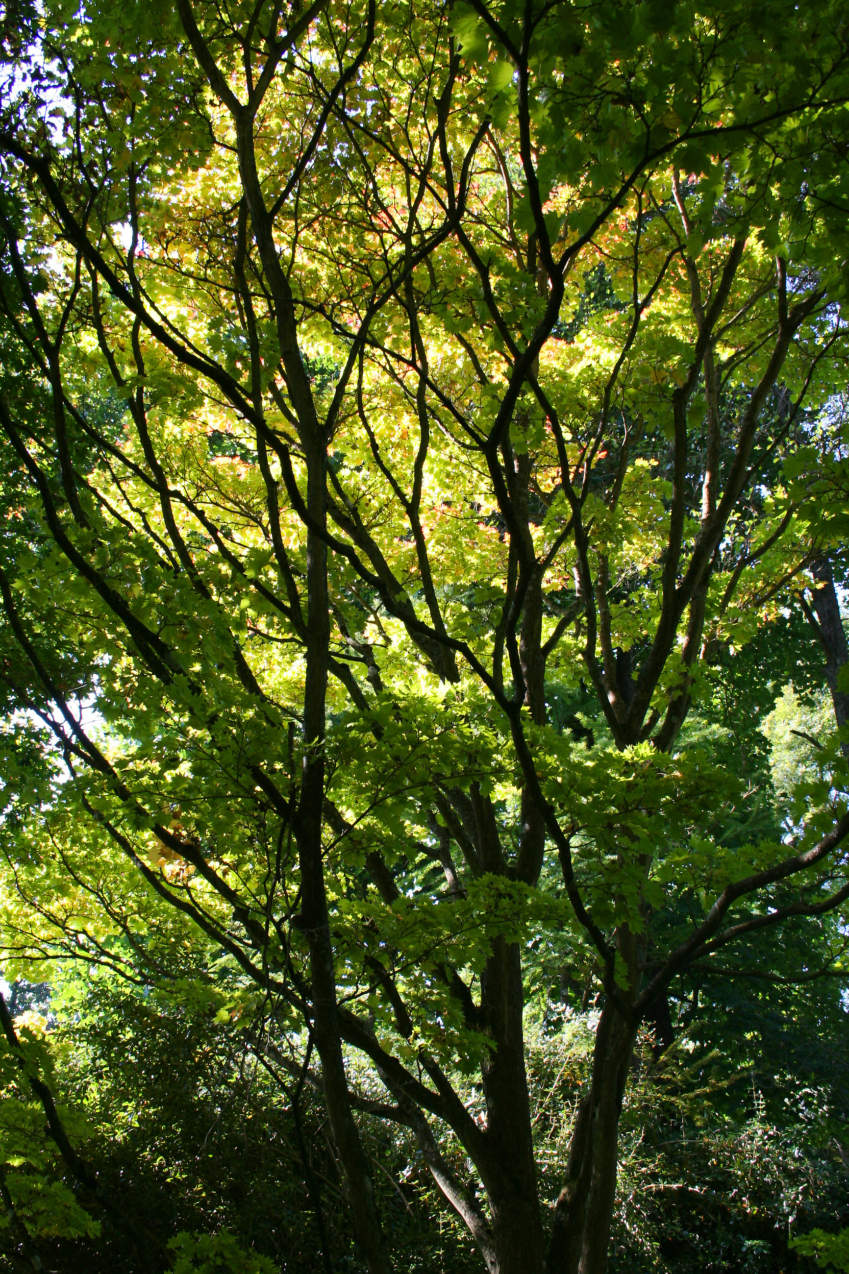 Shirasawa's Maple or Fullmoon Maple - Acer shirasawanum 'Aureum' Planting date : 1965 Particularity : the biggest specimen of Belgium Precise location : Arboretum Robert Lenoir (S48B - 0191) - Rendeux (Belgium). Walon: Plane dol plin.ne lune - Acer shirasawanum 'Aureum' Annéye do plantis' : 1965 Particularitè : li pus gros di Bèljike Place rècta : Arboretum Robert Lenoir (S48B - 0191) - Rindeu (Bèljike).